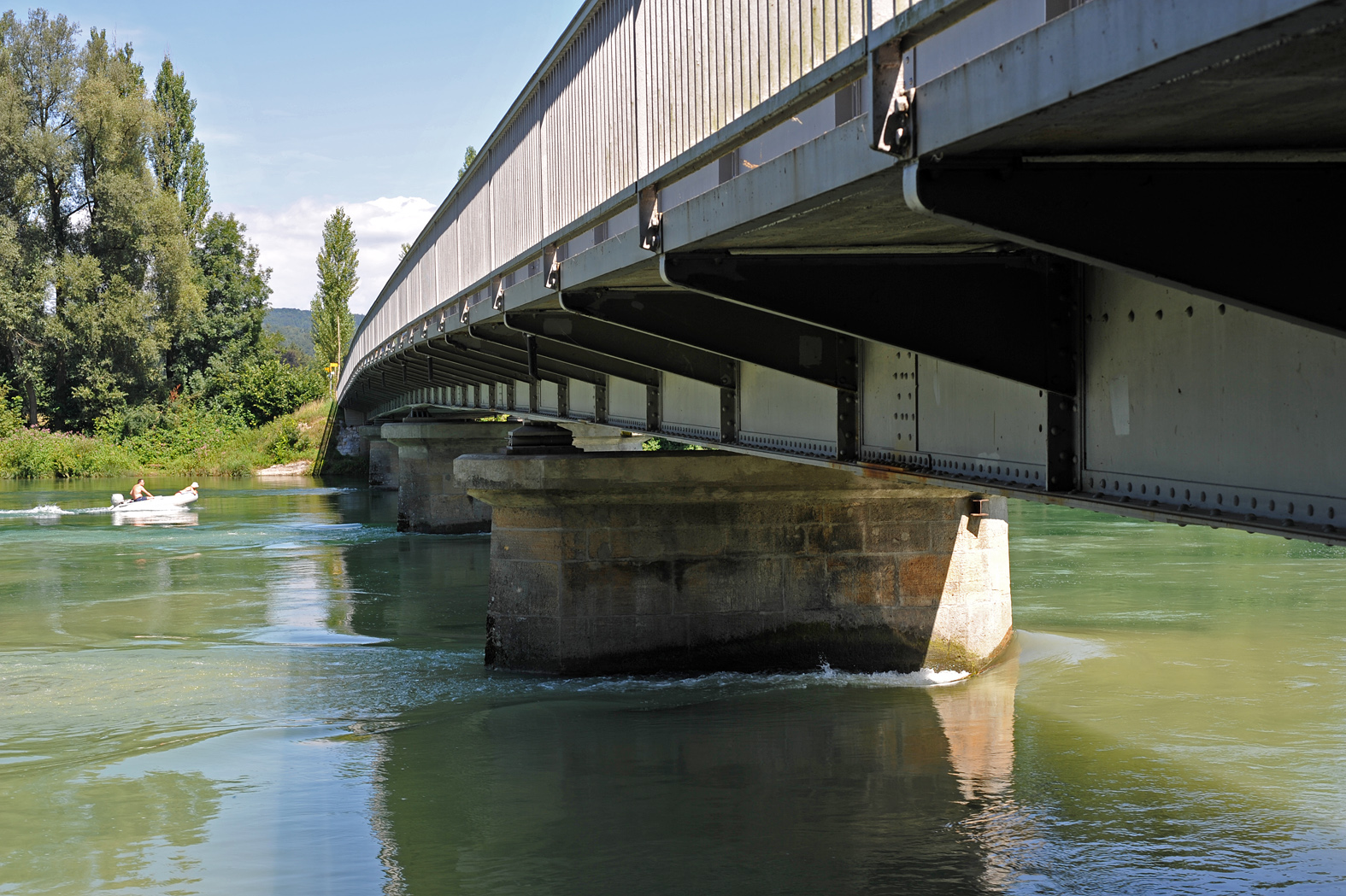 Roadbridge over the Rhine between Rüdlingen and Flaach; Schaffhausen and Zurich, Switzerland.